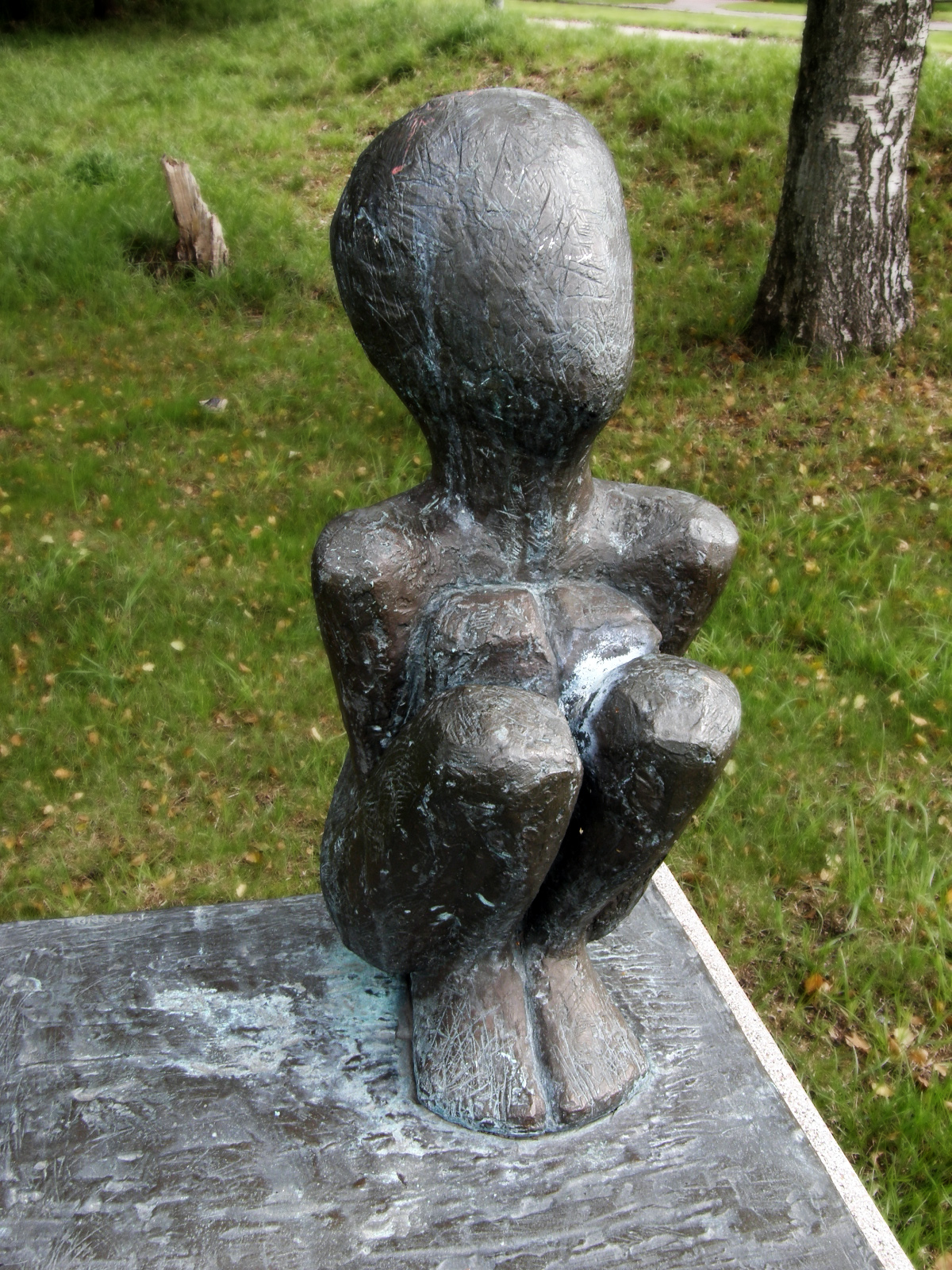 Alone. Bronze sculpture by Margareta Ryndel 1987. Härlanda, Gothenburg, Sweden.